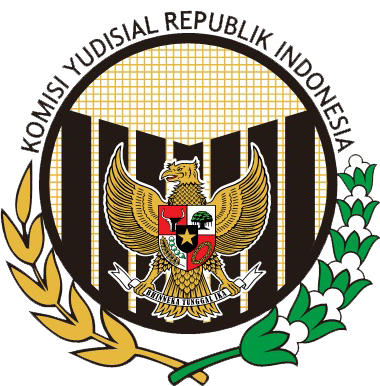 Logo of Judicial Commission of Indonesia